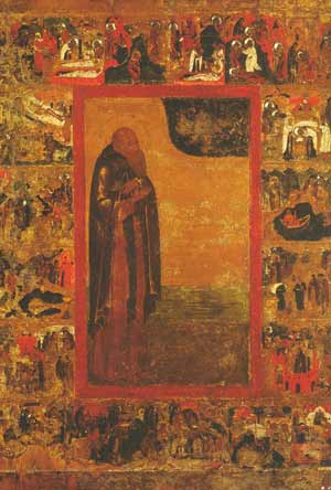 Antony of Siya Icon